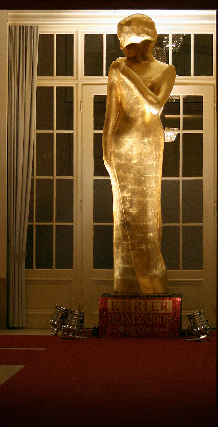 Romy TV awards (Hofburg Imperial Palace in Vienna)